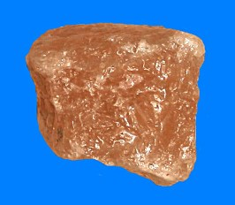 Picture of Sylvinit (Kalisalz)